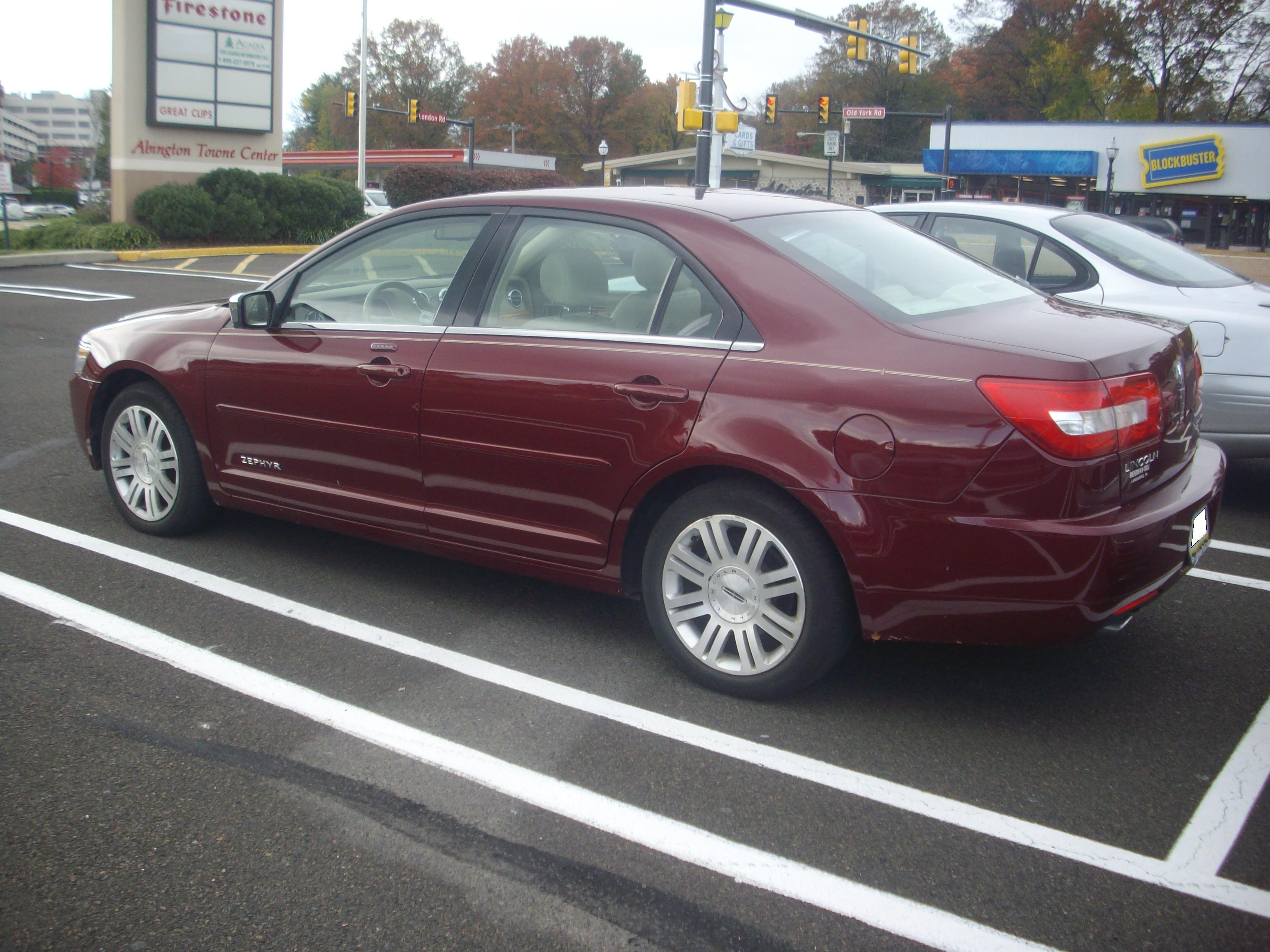 Lincoln Zephyr photographed in Pennsylvania, USA.